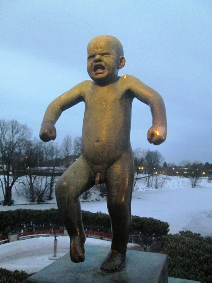 The Angry Boy